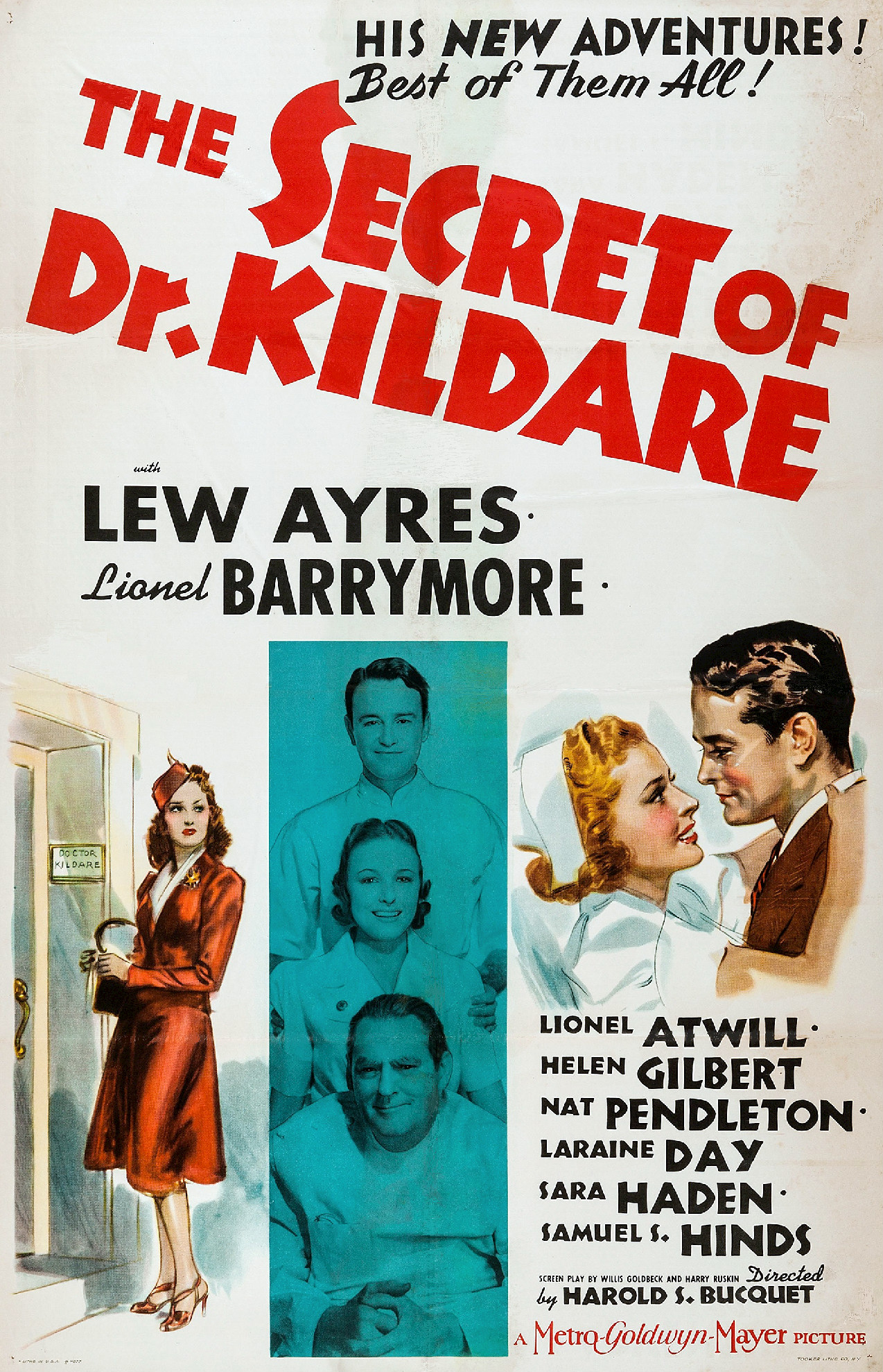 Poster for the 1939 film The Secret of Dr. Kildare.. The item has no copyright markings on it as can be seen in the links above and uncropped copy. At bottom left is Litho in USA and #4077. At bottom right is Tooker Litho Co. NY-they printed the poster.